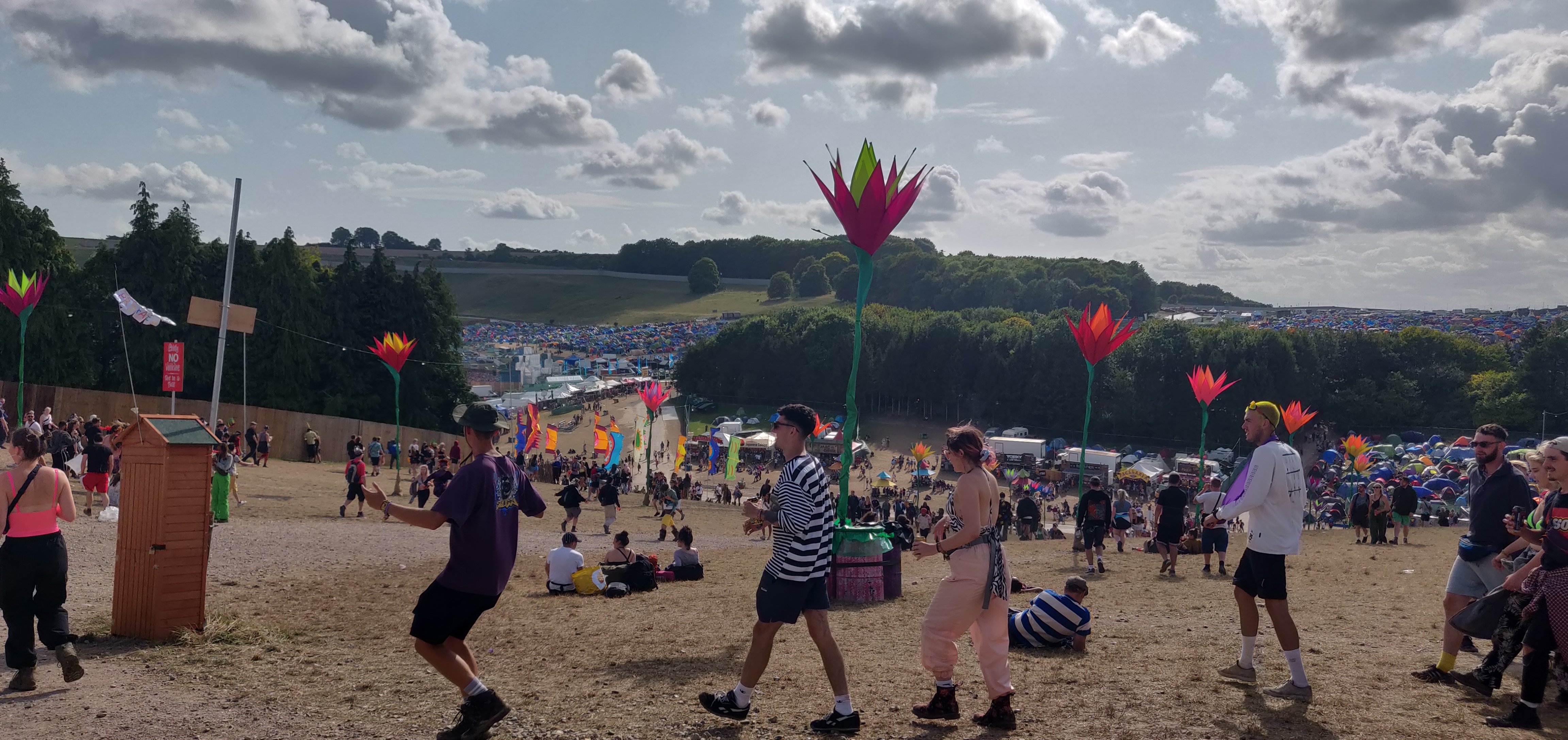 Hippie Highway at Boomtown Fair 2019